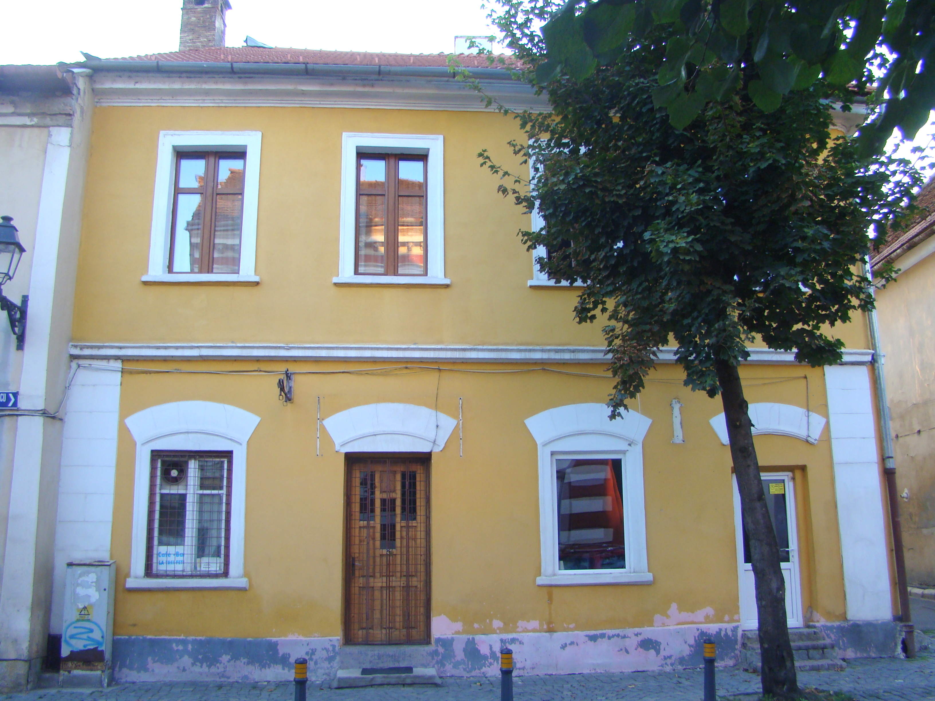 House, historic monument, in Bistrița, Nicolae Titulescu street 34